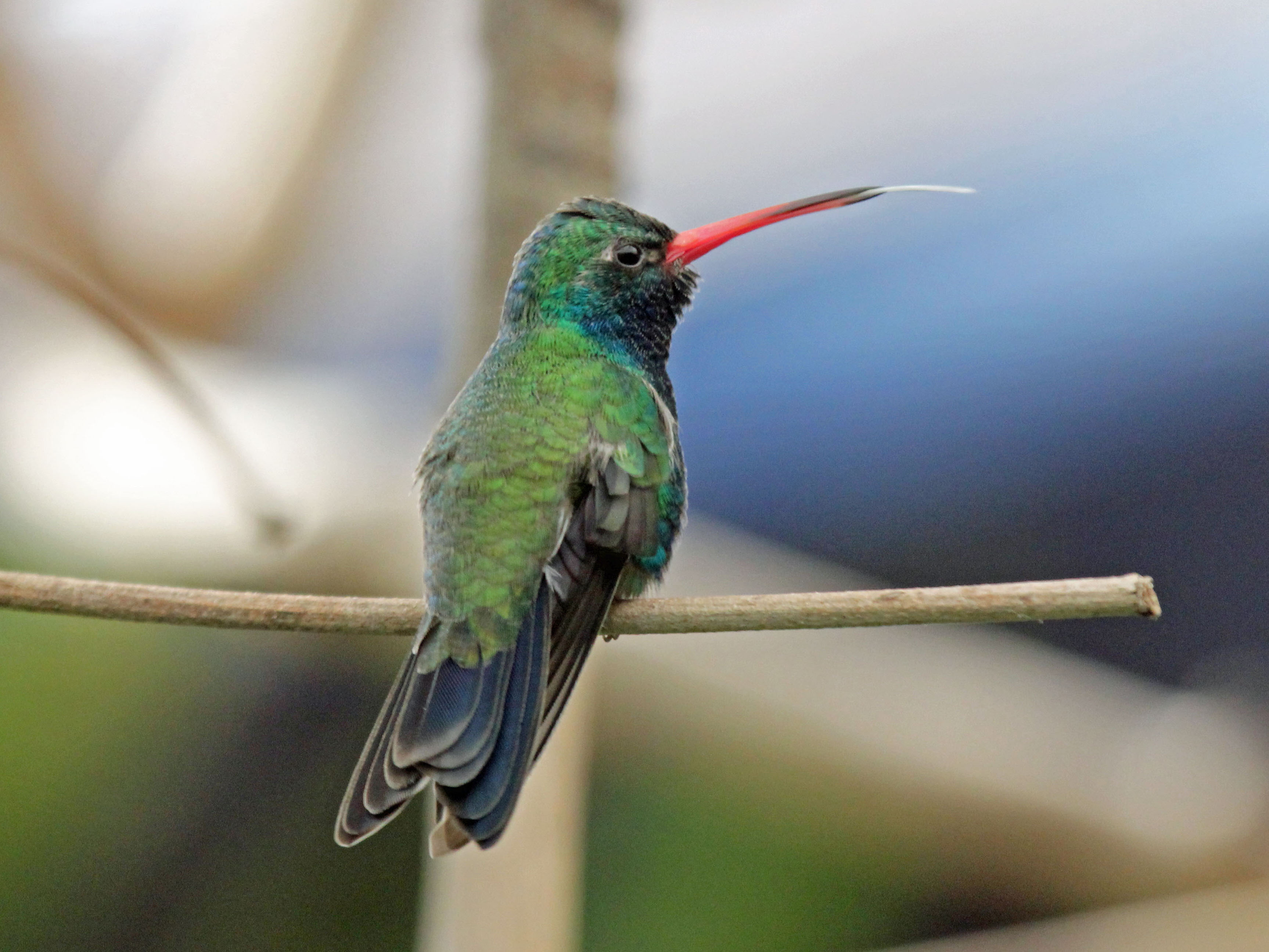 Broad-billed Hummingbird (Cynanthus latirostris) - San Diego Zoo. Note the out-stretched tongue.